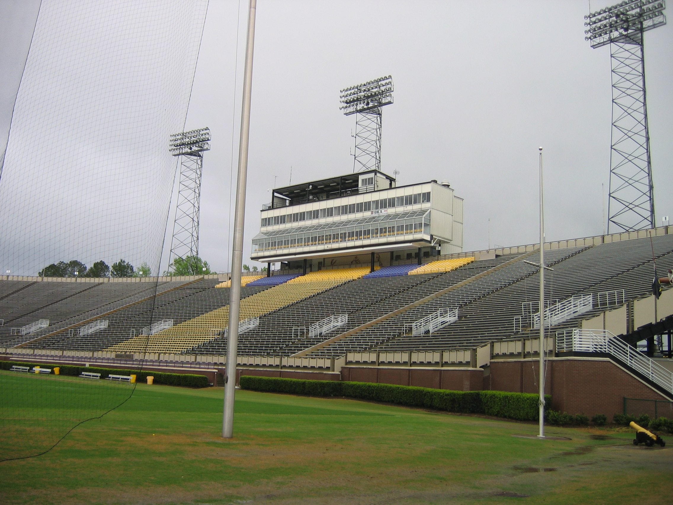 Football & Basketball Facilities East Carolina Football Stadium